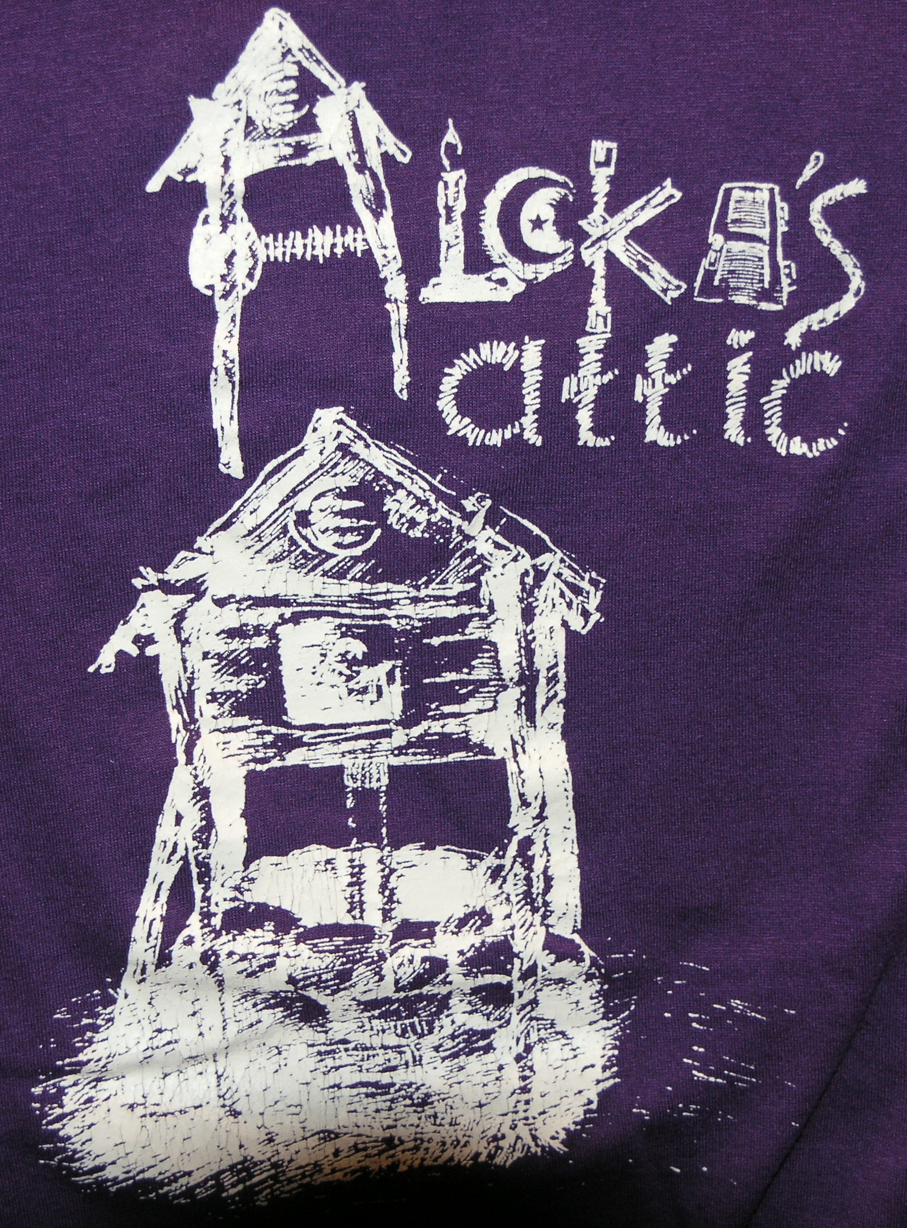 Alekas Attic T-Shirt Logo from Tour in 1991 design by Josh McKay